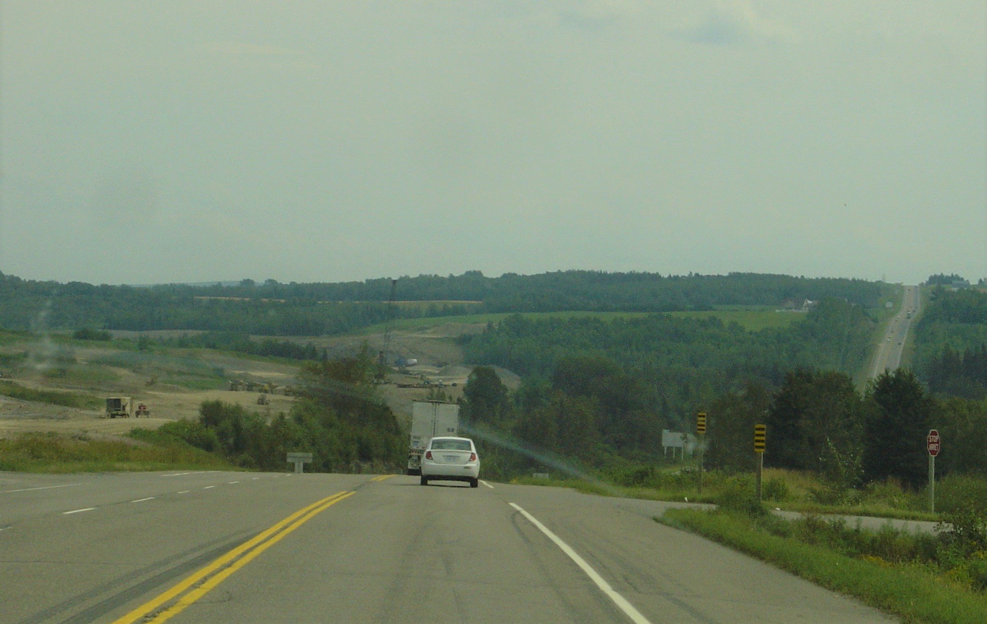 New Brunswick Route 2 prior to twinning